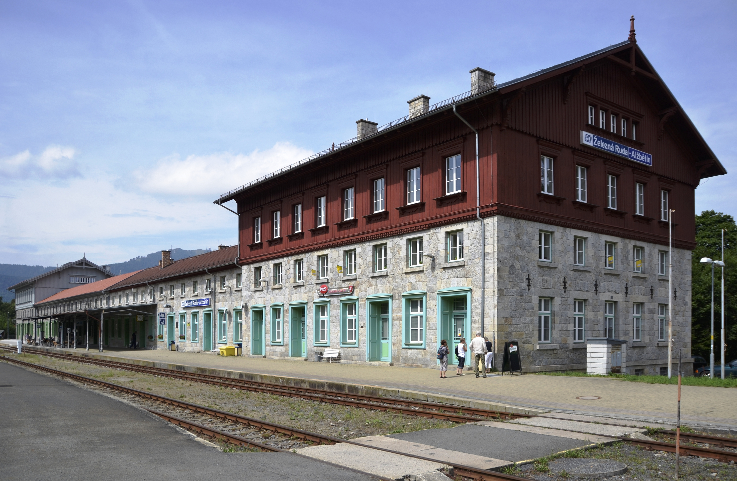 The Železná Ruda-Alžbětín train station in the Czech Republic.